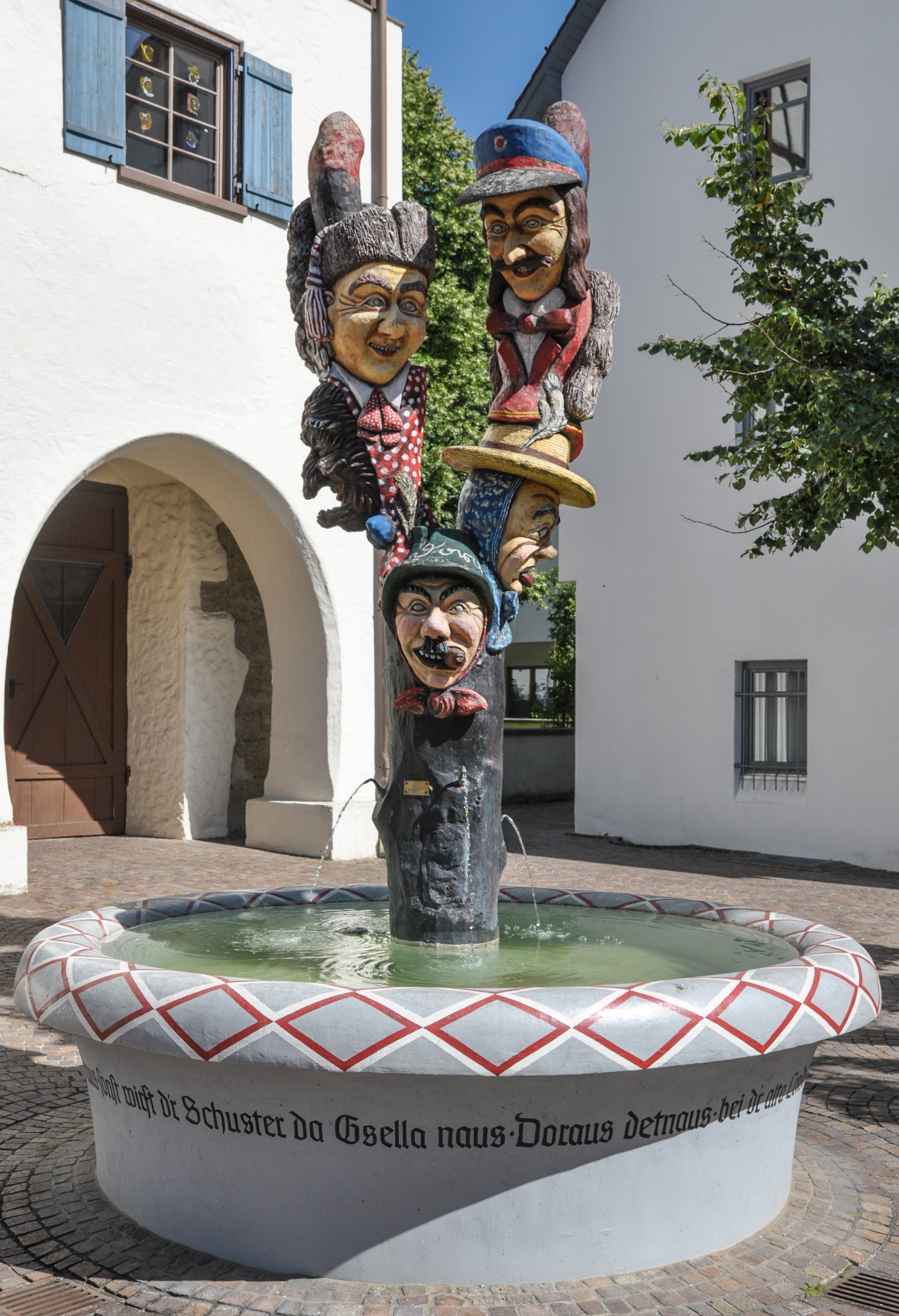 Carnival fountain in Bad Saulgau, 1989, Egon Leeuw, district Sigmaringen, Baden-Württemberg, Germany